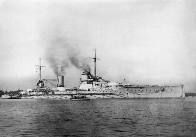 The German battlecruiser SMS Seydlitz in May 1914.